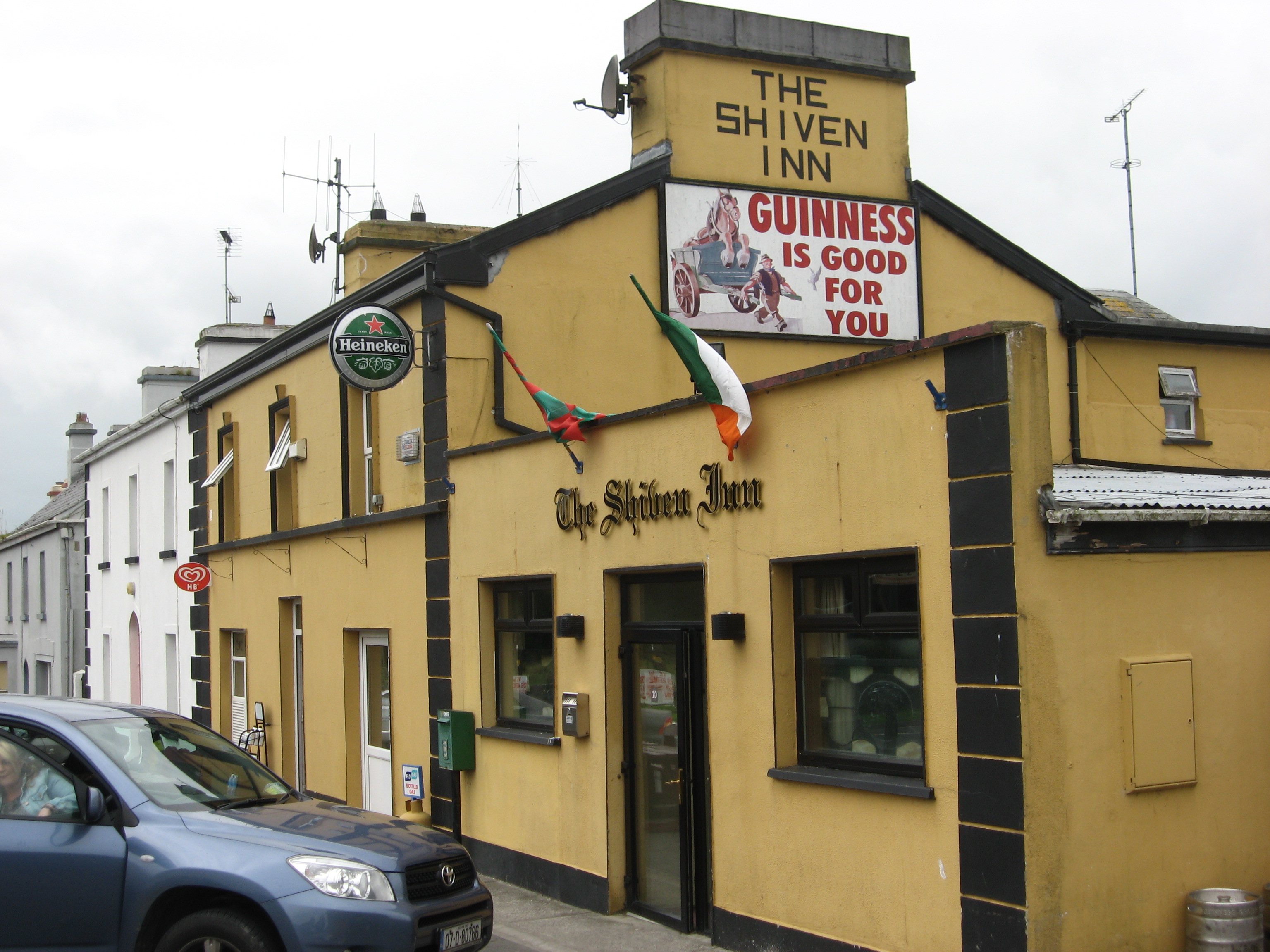 The Shiven Inn, a local pub, located next to a general store. Was owned by the Hines family for many years.